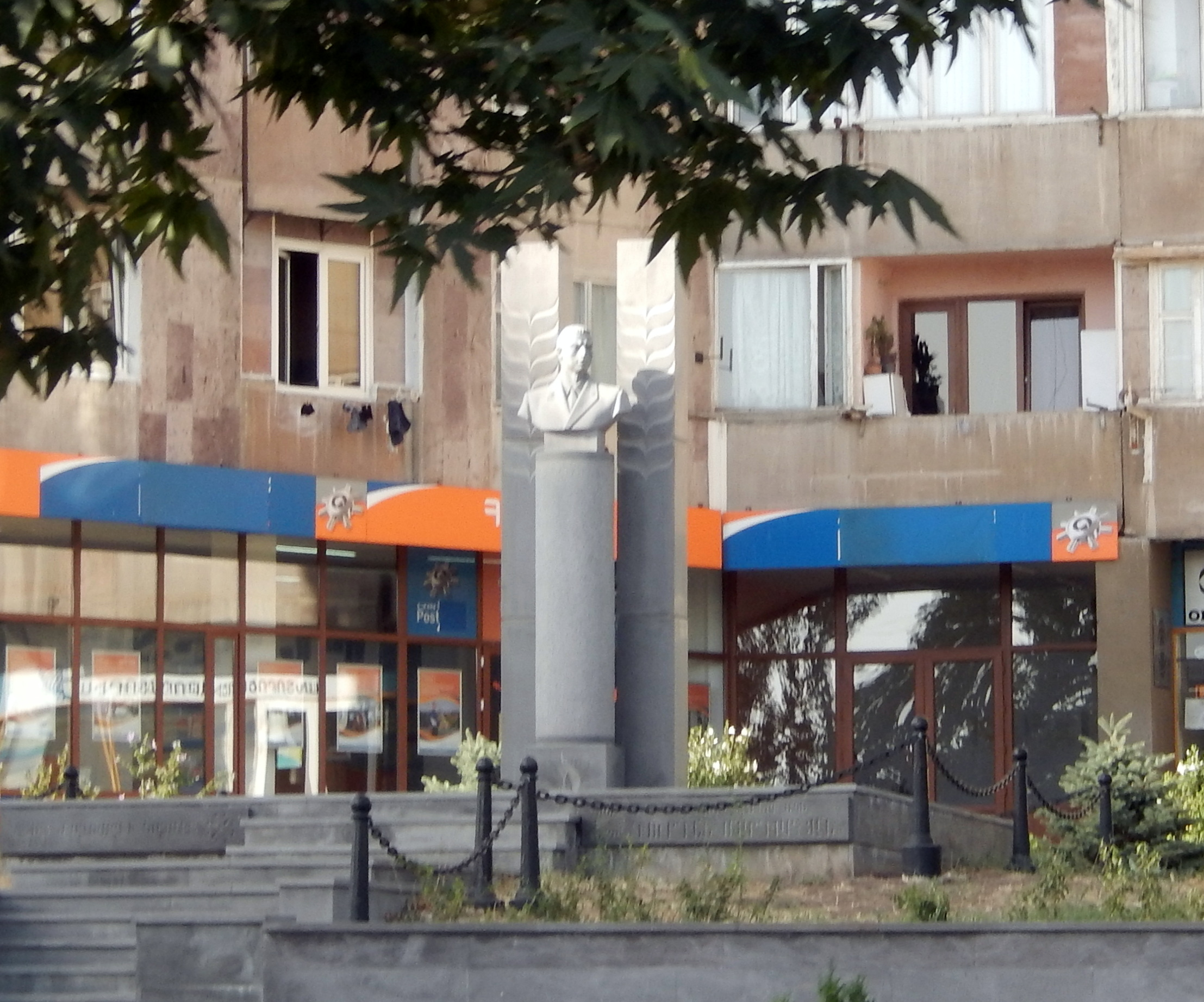 Գուրգեն Մարգարյանի կիսանդրի (Երևան, Աջափնյակ) Bust to Gourgen Margarian (Yerevan, Ajapnyak District)